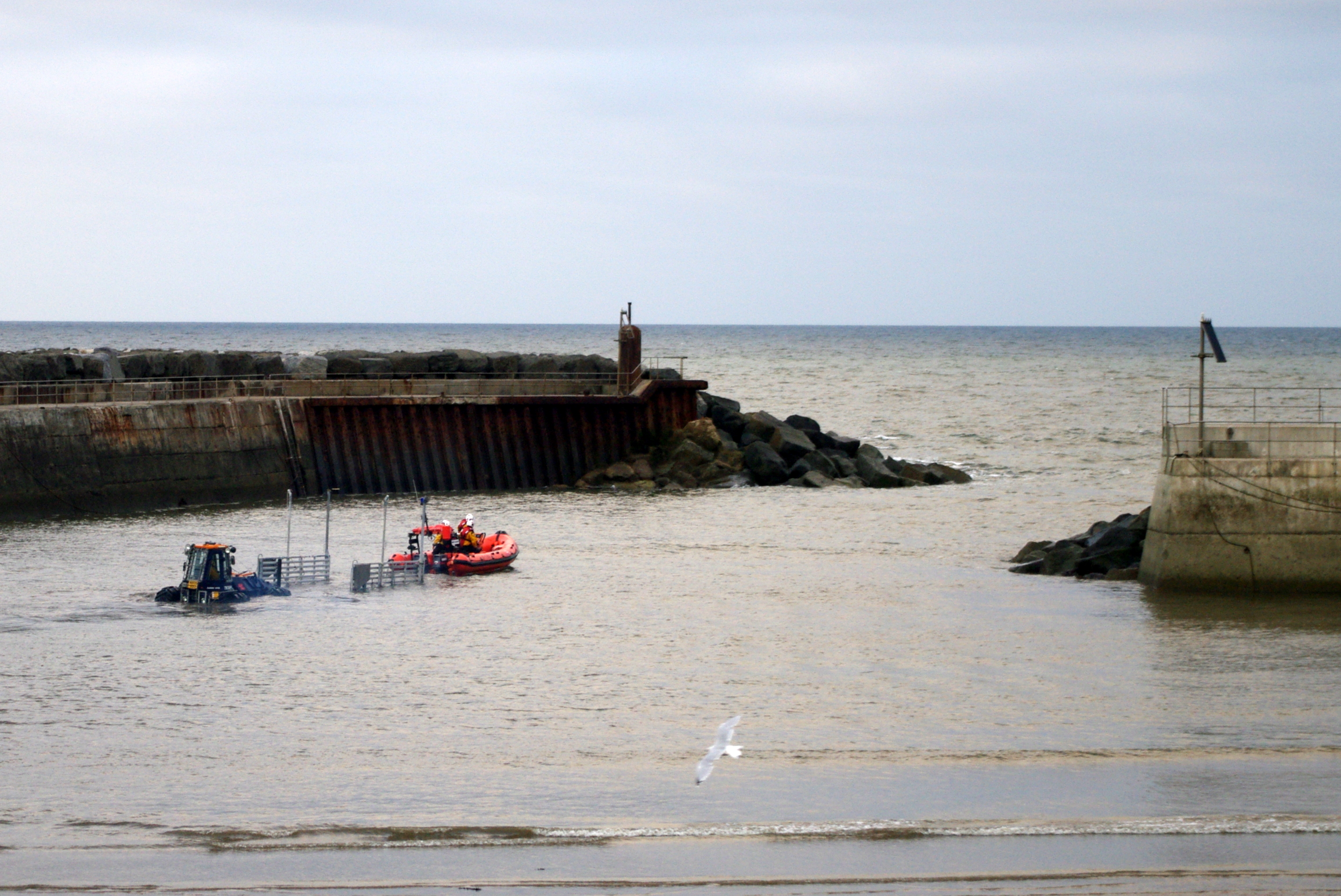 Staithes lifeboat launches, Talus MB-4H tractor